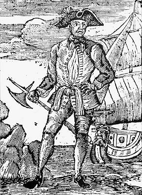 An 18th century woodcut of Irish pirate Edward (Seegar) England.